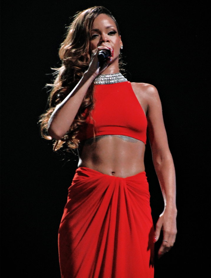 Rihanna performing Diamonds World Tour at the Air Canada Centre, 19 March 2013.